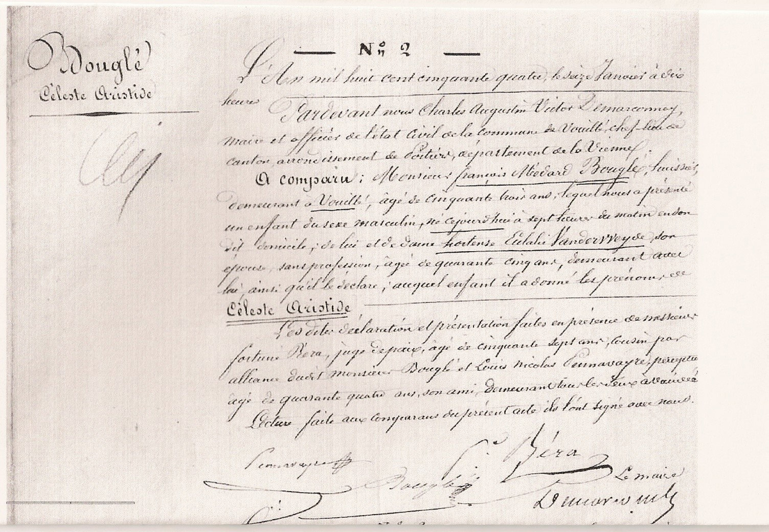 Birth certificate of Céleste Aristide Bouglé, in January 16th, 1854